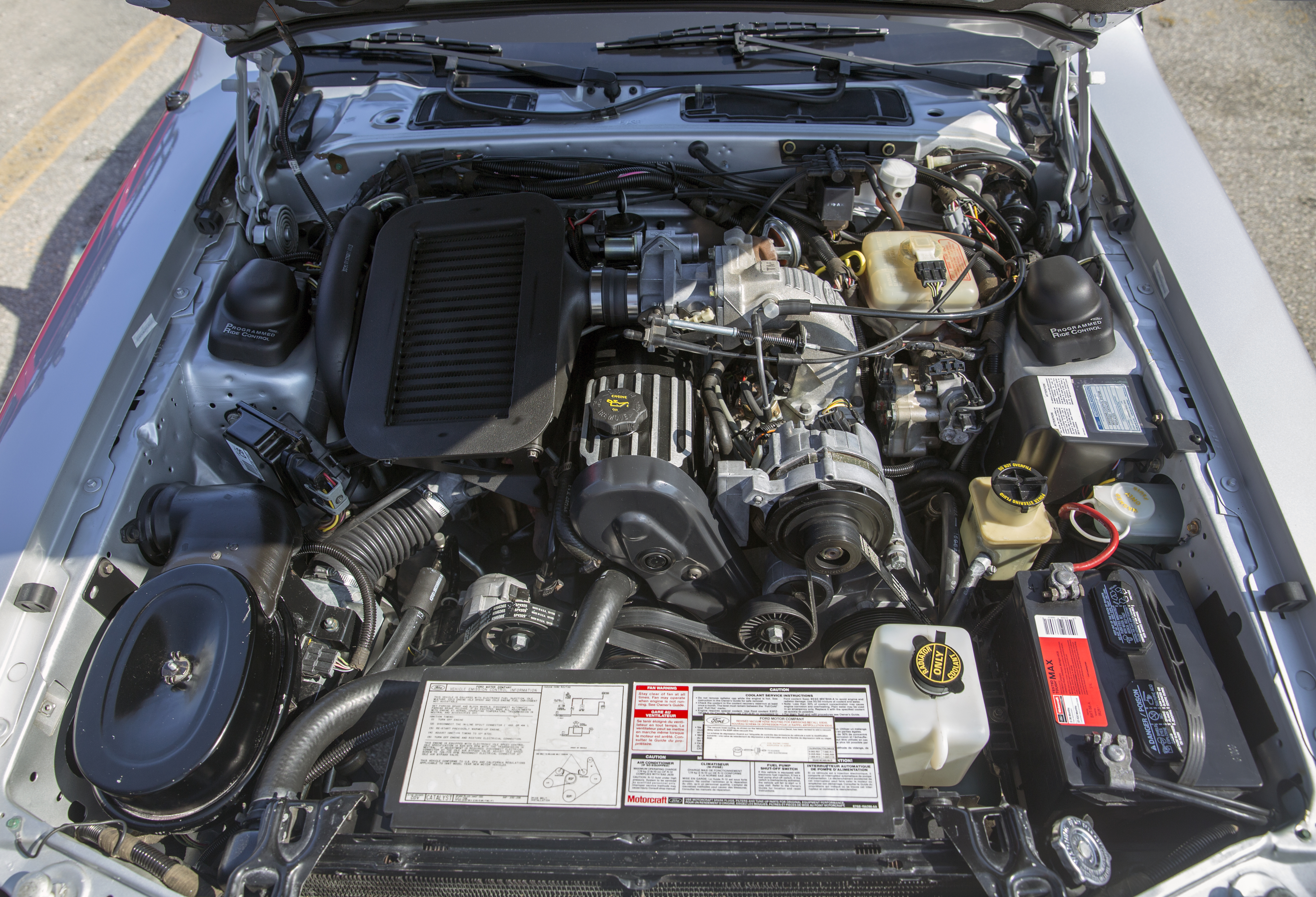 A 1987 Ford Thunderbird Turbo Coupé at the Belmont Race Track.